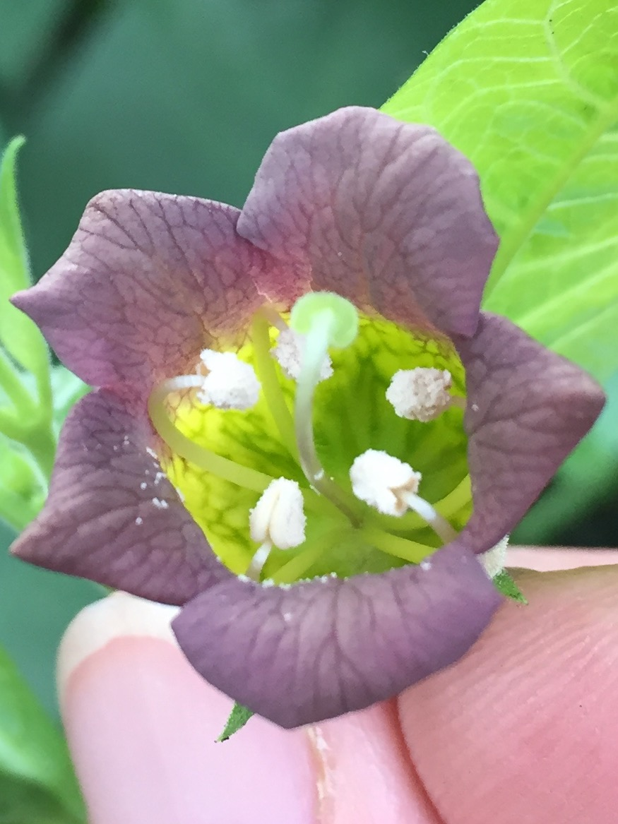 Atropa belladonna L. Single flower, face-on, showing contrasting purple corolla lobes and reticulated, greenish-yellow corolla throat with stamens ( pubescent at bases ) and pistil inserted at very bottom.